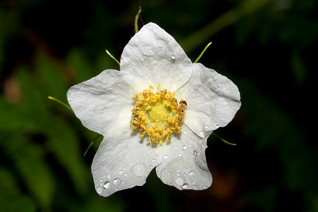 The Thimbleberry is an edible berry which makes excellent Jam. This is an ageing flower of the thimbleberry plant. Observed near Beaupre falls at the Nisga’a Memorial Lava Bed Park. This is the first provincial park to be jointly managed by a First Nation and BC Parks.